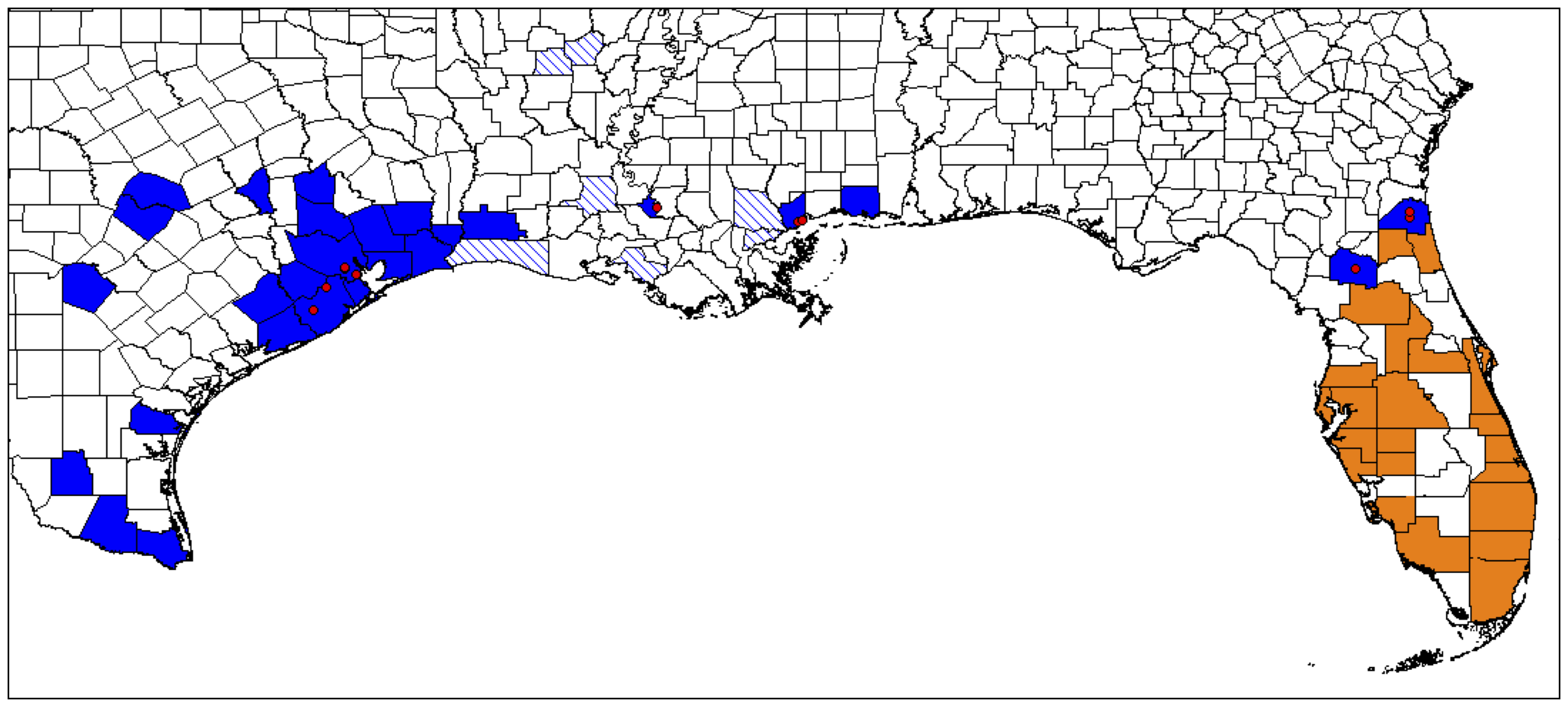 Reported distribution of the Rasberry Crazy Ant in the United States 2012. "The distribution of Nylanderia cf. pubens in Florida is given in orange, but we suspect that these may prove to be N. fulva. Counties highlighted with solid colors indicate verified occurrences, whereas hatched counties are unconfirmed reports. Red dots indicate collection sites for samples used in this study. The actual distribution of N. fulva in the United States is most likely to be more widespread."